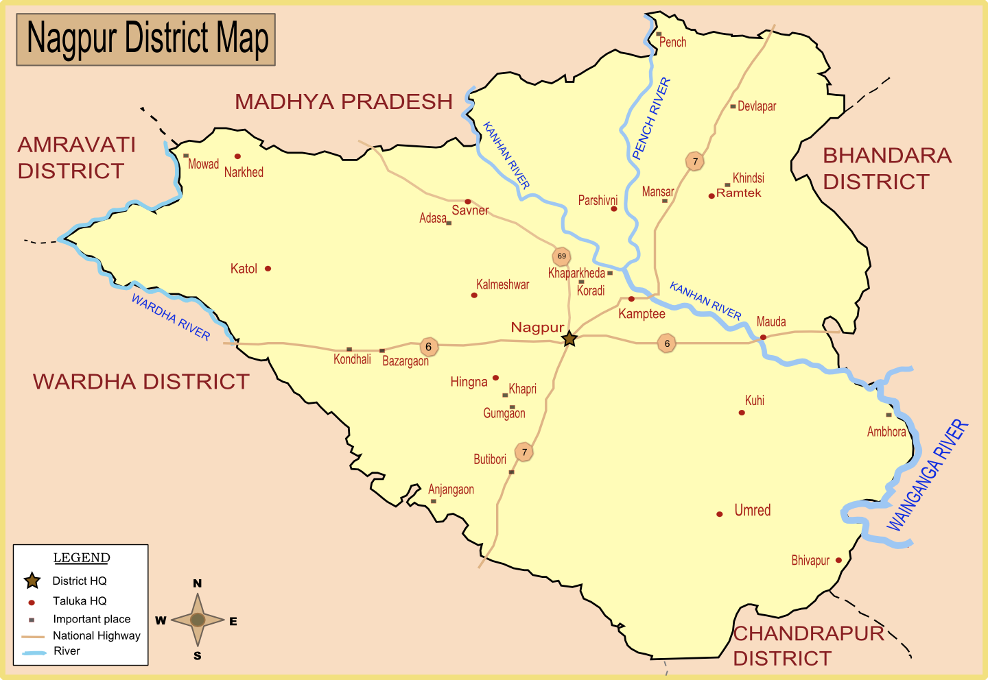 Map of Nagpur district with major towns and rivers. I have created this map by taking reference from Nagpur district collector's website.